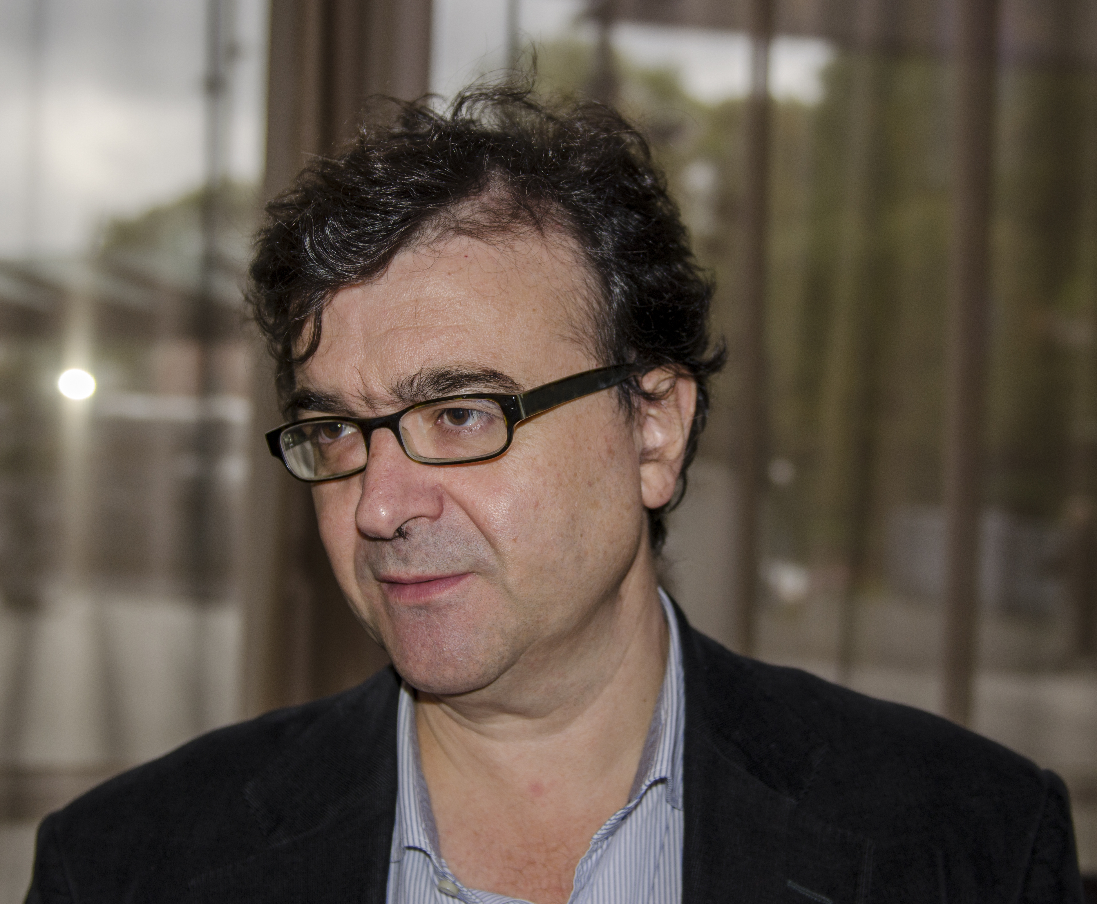 Javier Cercas at the Gothenburg Book Fair 2014.